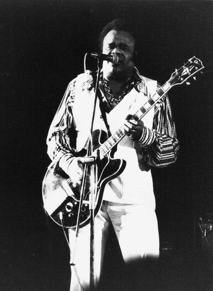 Blues guitarist Freddie King in Paris, France.